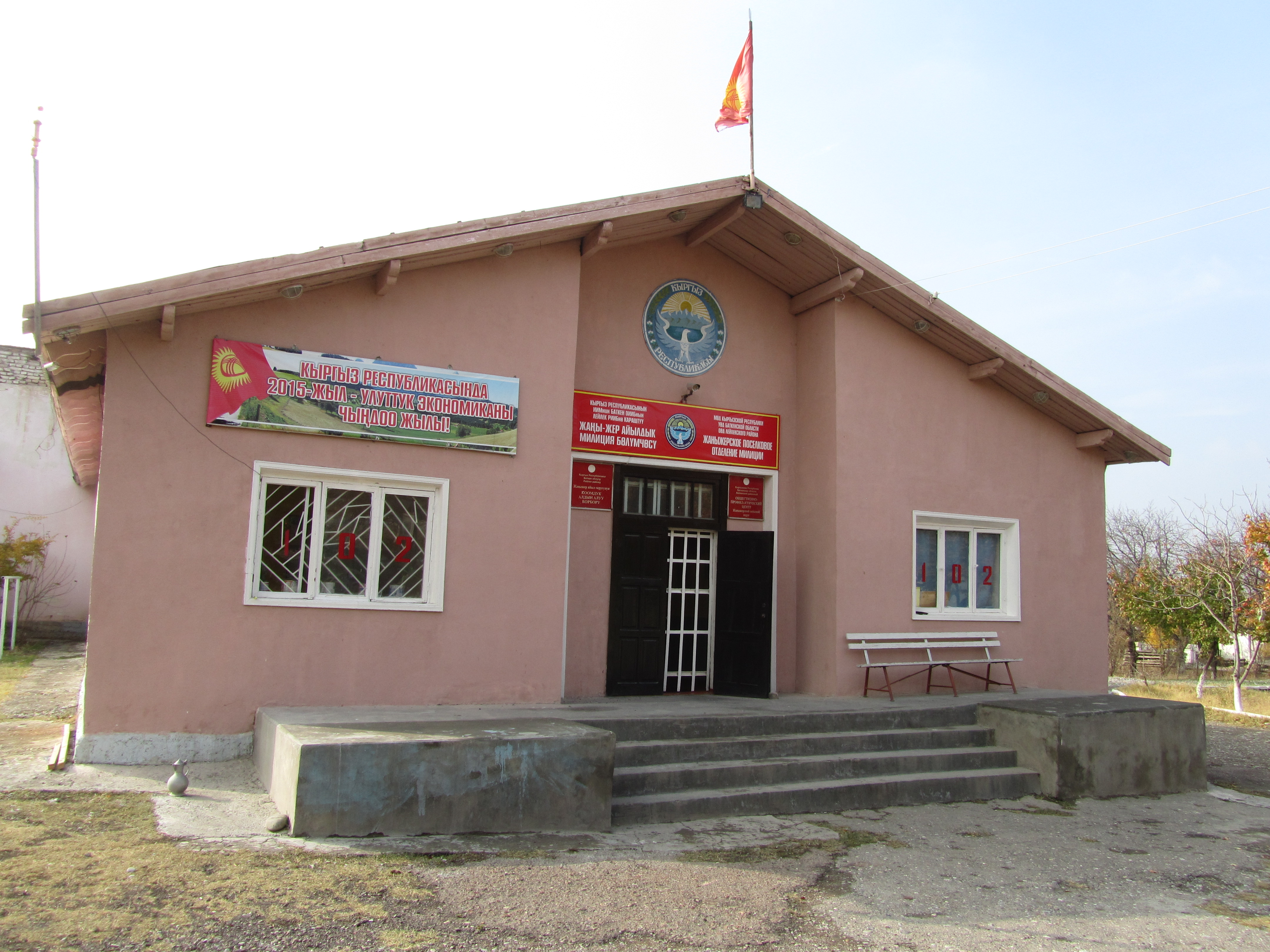 A police substation in the village of Borborduk (also known as Arka 1). The village was formerly called Tsentralnoye. Leilek District, Kyrgyzstan.